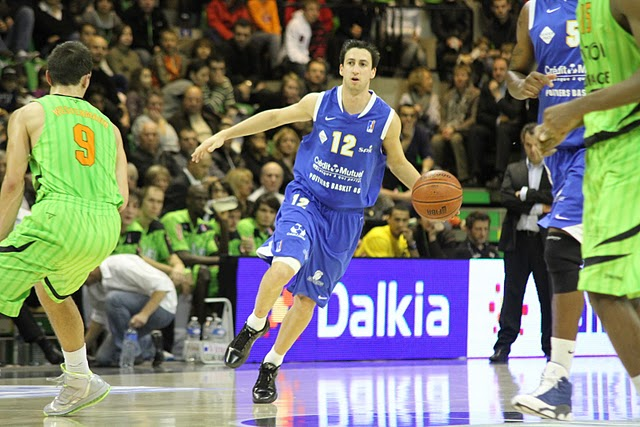 Basketball player Cédric Gomez